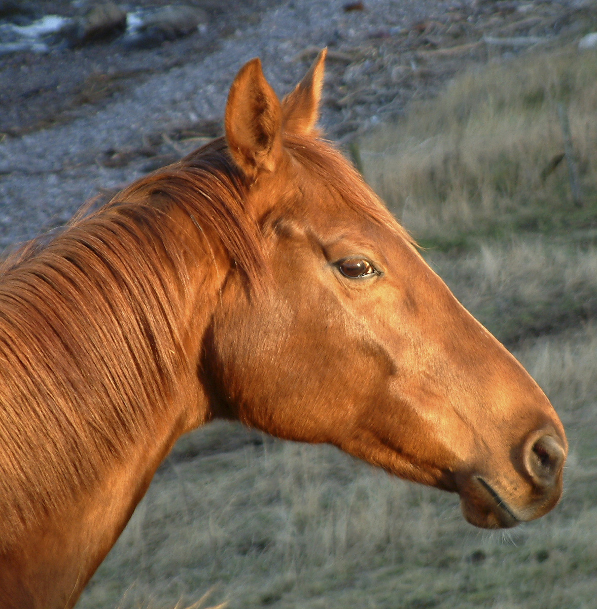 Thoroughbred chestnut marechestnut in late afternoon sun